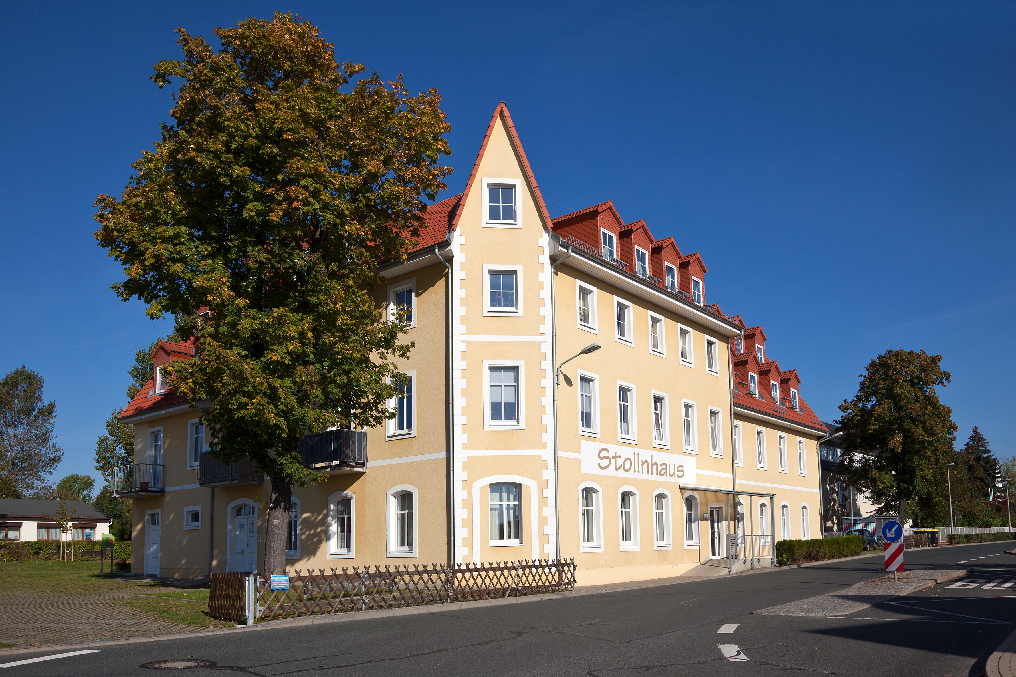 "Stollnhaus" in Zug (Freiberg), Saxony